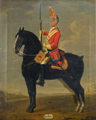 Trooper of the 2nd Horse Grenadier Guards, by David Morier, c. 1750.